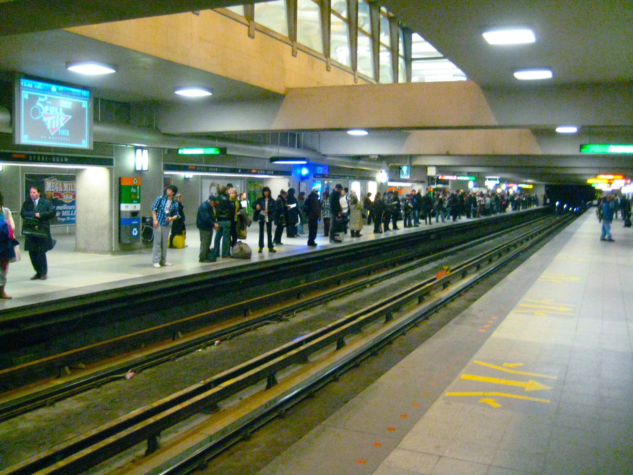 Berri-UQAM Metro station Orange line platform (Montreal Metro)